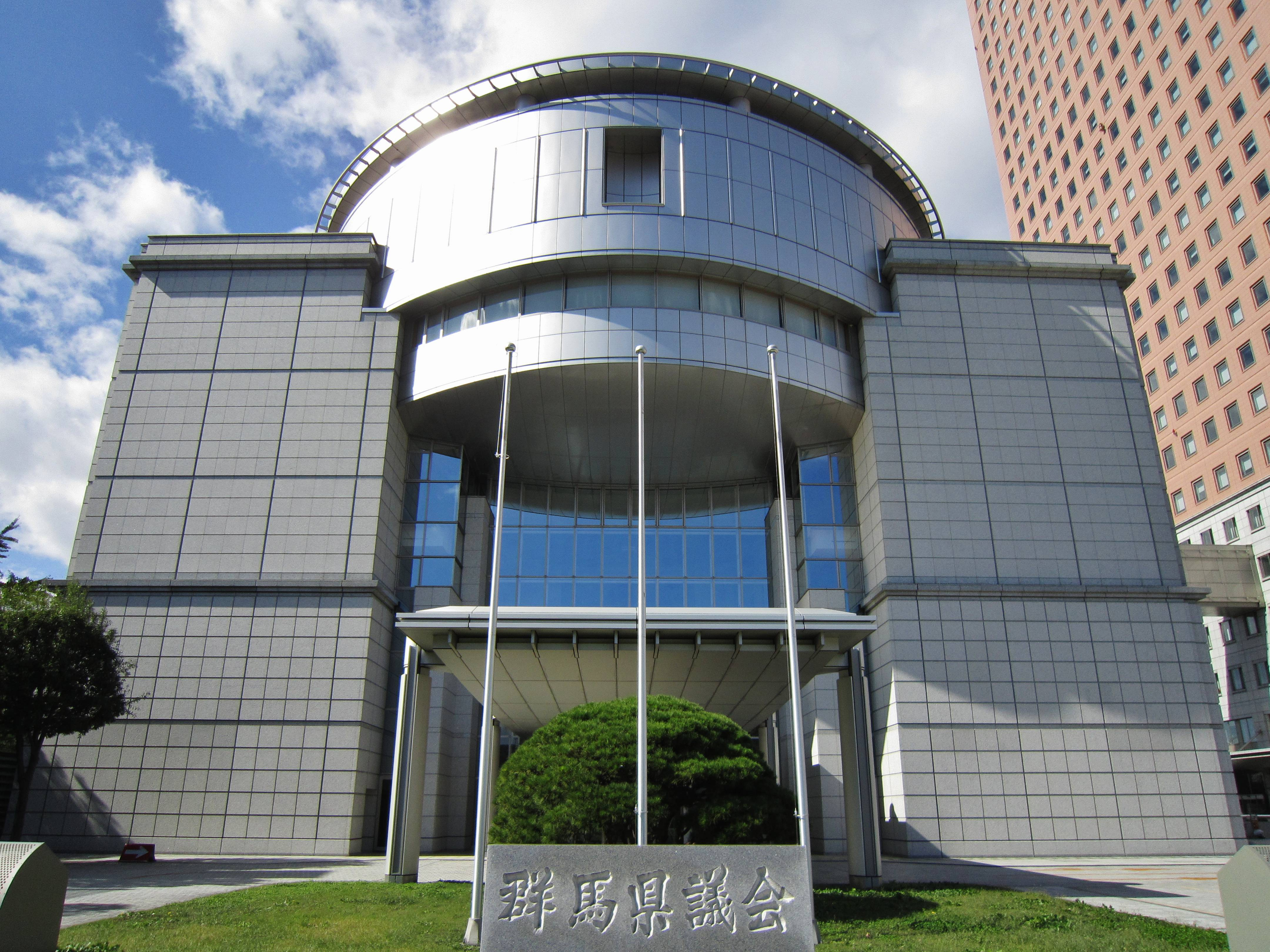 Gunma Prefectural Government Building Gunma Prefectural Assembly.